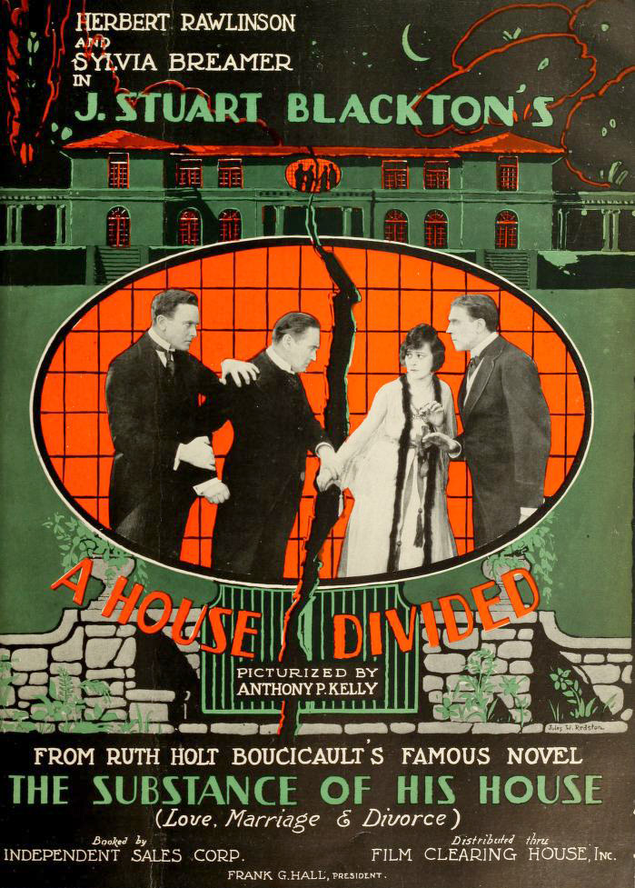 Advertisement in Moving Picture World, May 1919 for A House Divided (1919).